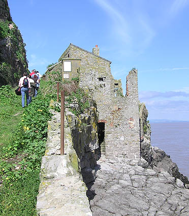 Steepholm, old inn from path. East side of Steepholm island, above landing beach